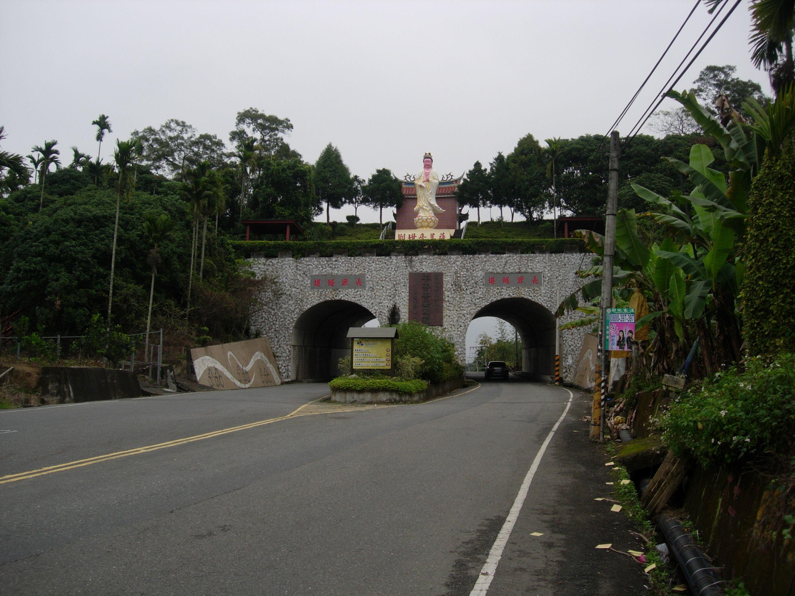 Jhongliao Changyuan Tunnel